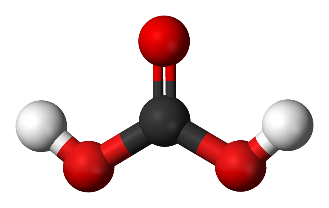 Ball and stick model of the carbonic acid molecule.